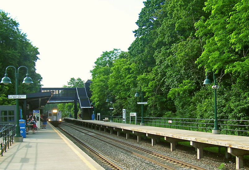 Photographed by Daniel Case 2006-07-08